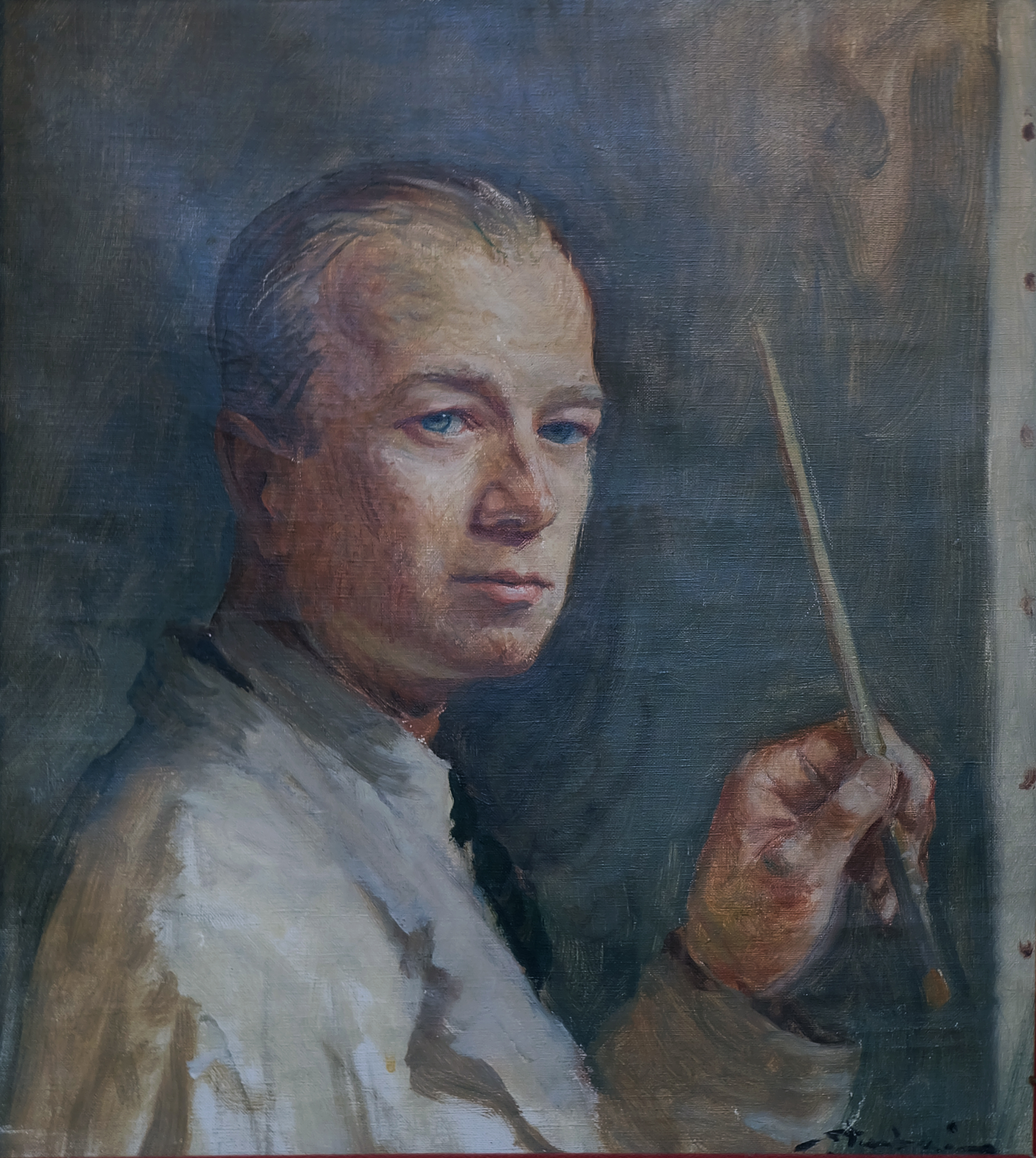 Dimitrie Știubei, self-portrait